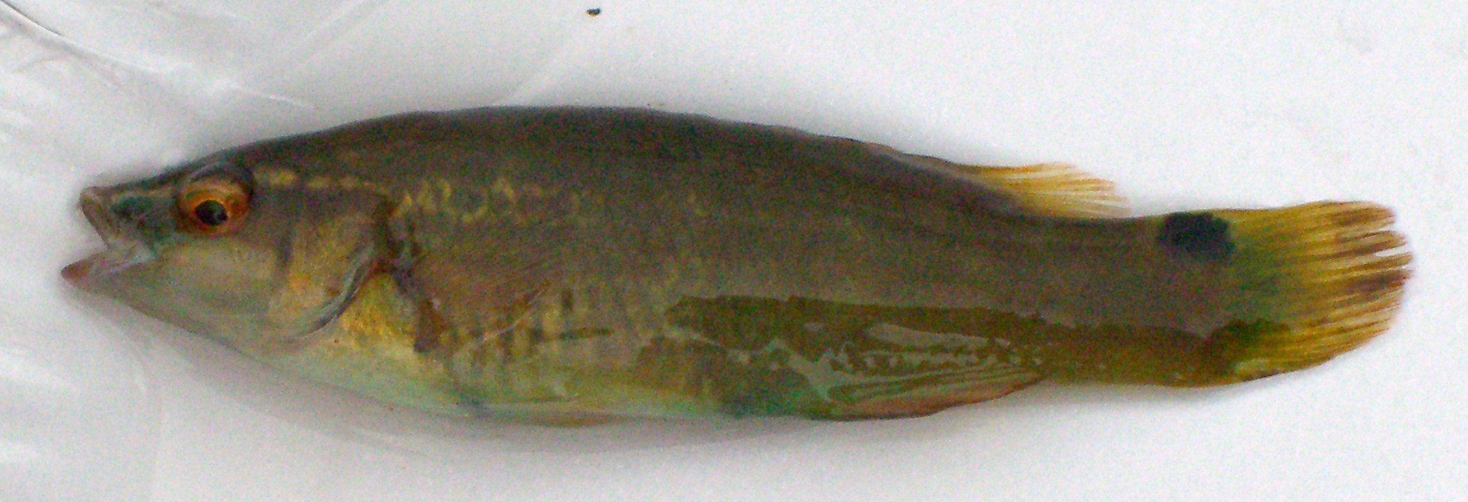 Goldsinny. Fished by Maja Weedon-Fekjær (Nesodden, Norway). Photo by Harald Weedon-Fekjær